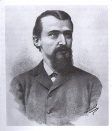 A photo of Armin Pavić